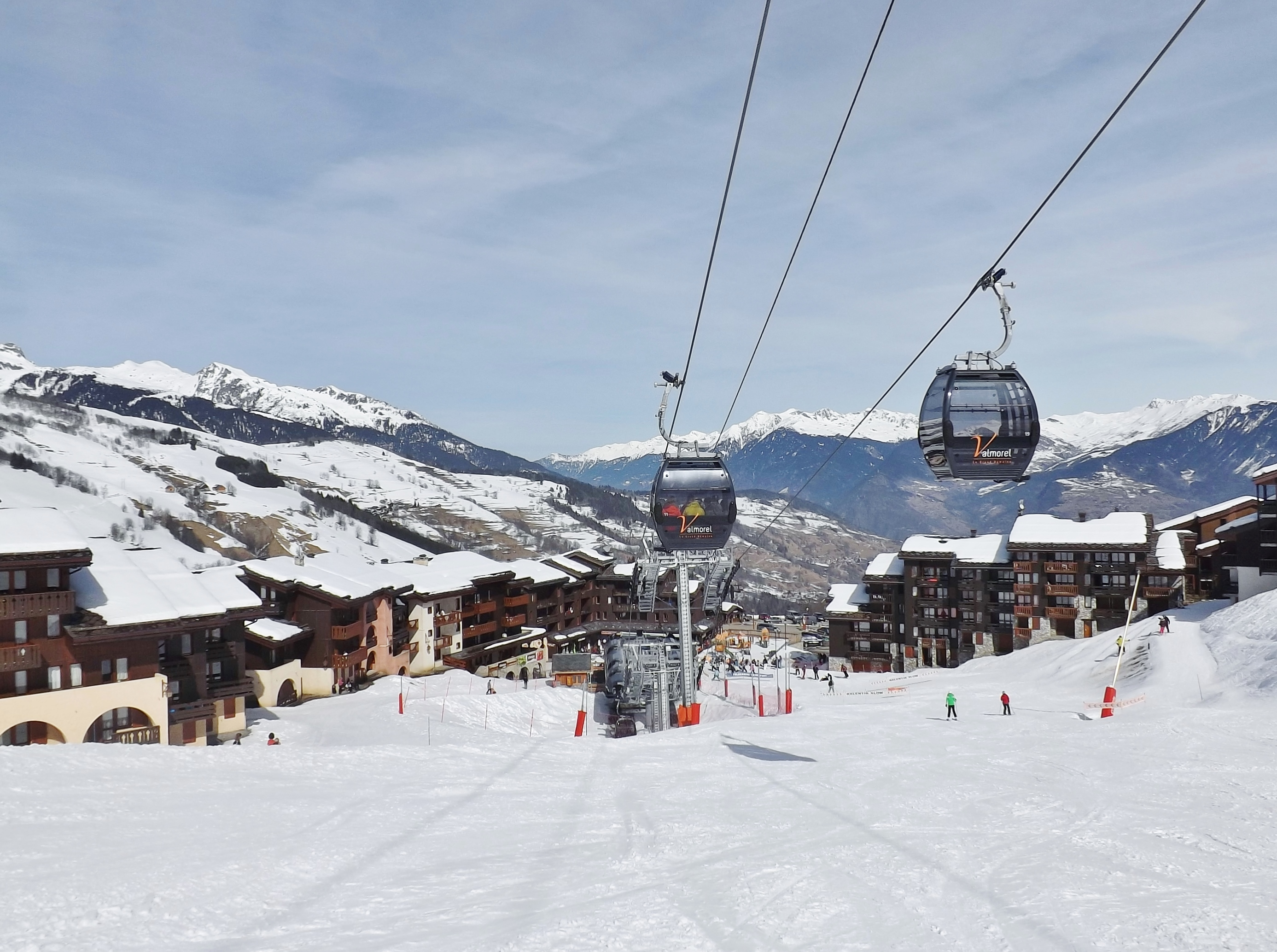 Sight of Valmorel ski resort village and the gondola lift departure, in Savoie, France.